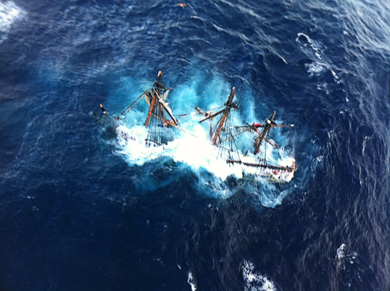 The HMS Bounty, a 180-foot sailing ship, is shown submerged in the Atlantic Ocean during Hurricane Sandy approximately 90 miles southeast of Hatteras, N.C., Monday, Oct. 29, 2012. Of the 16-person crew, the Coast Guard rescued 14, recovered a woman and is searching for the captain of the vessel. U.S. Coast Guard photo by Petty Officer 2nd Class Tim Kuklewski.